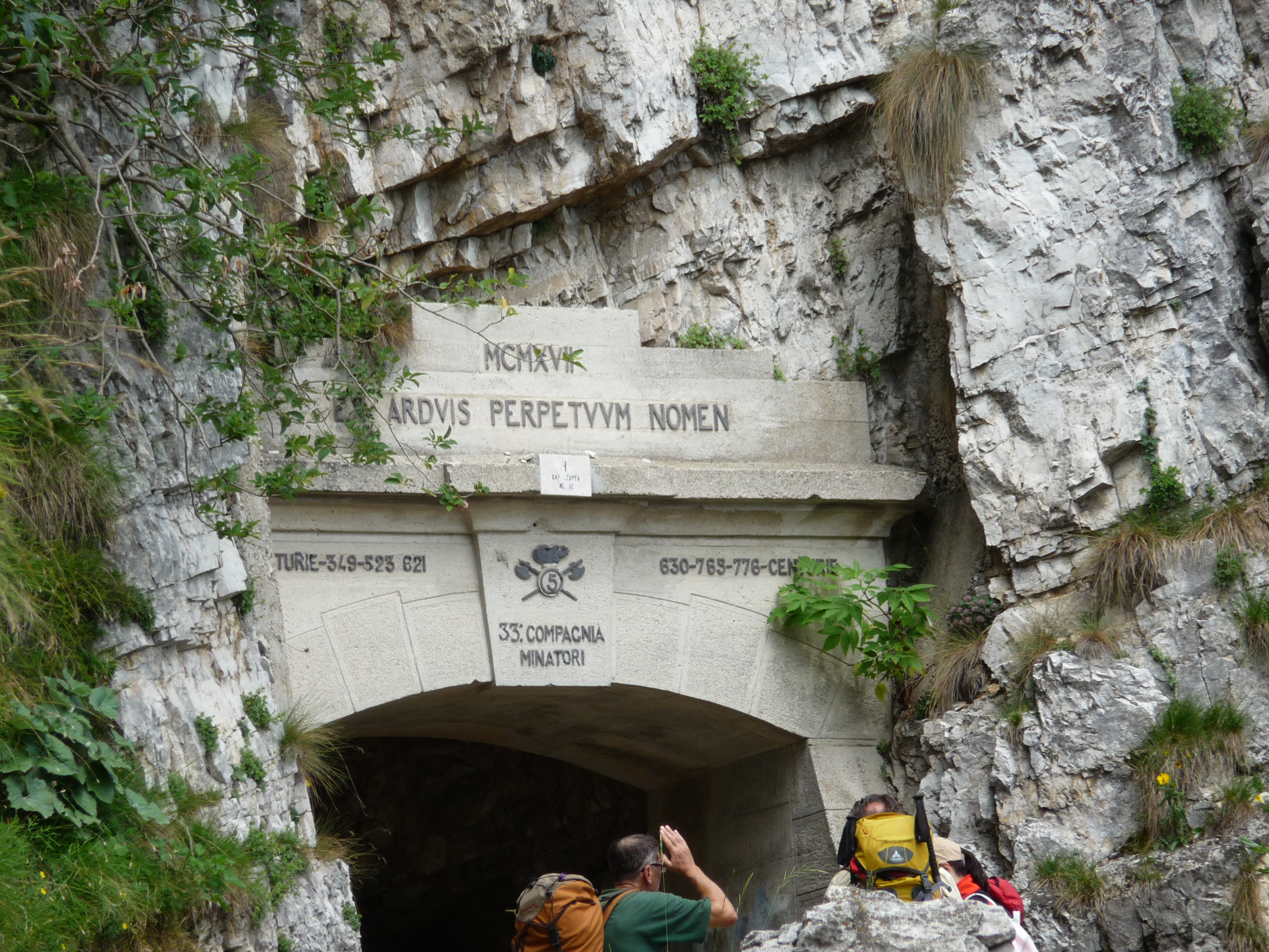 Entrance tunnel of the "Strada della 52 Gallerie"